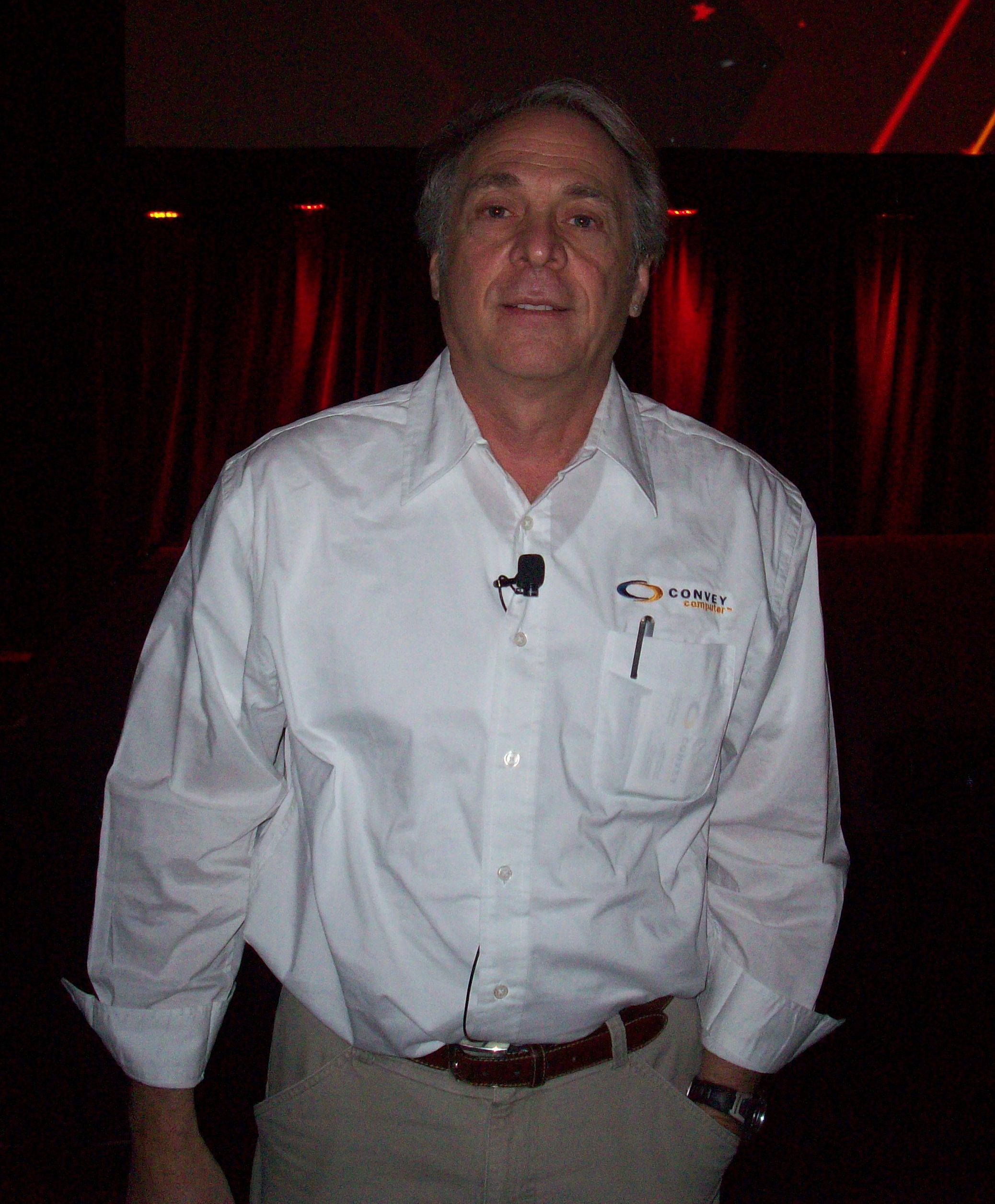 Steve Wallach. Taken at Supercomputing 2008